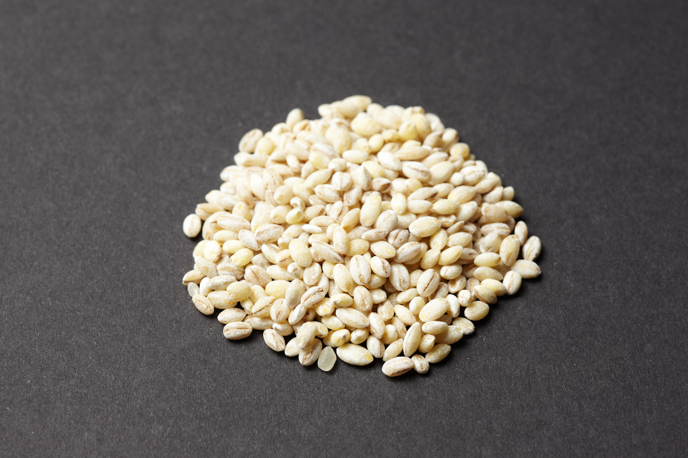 barley grains